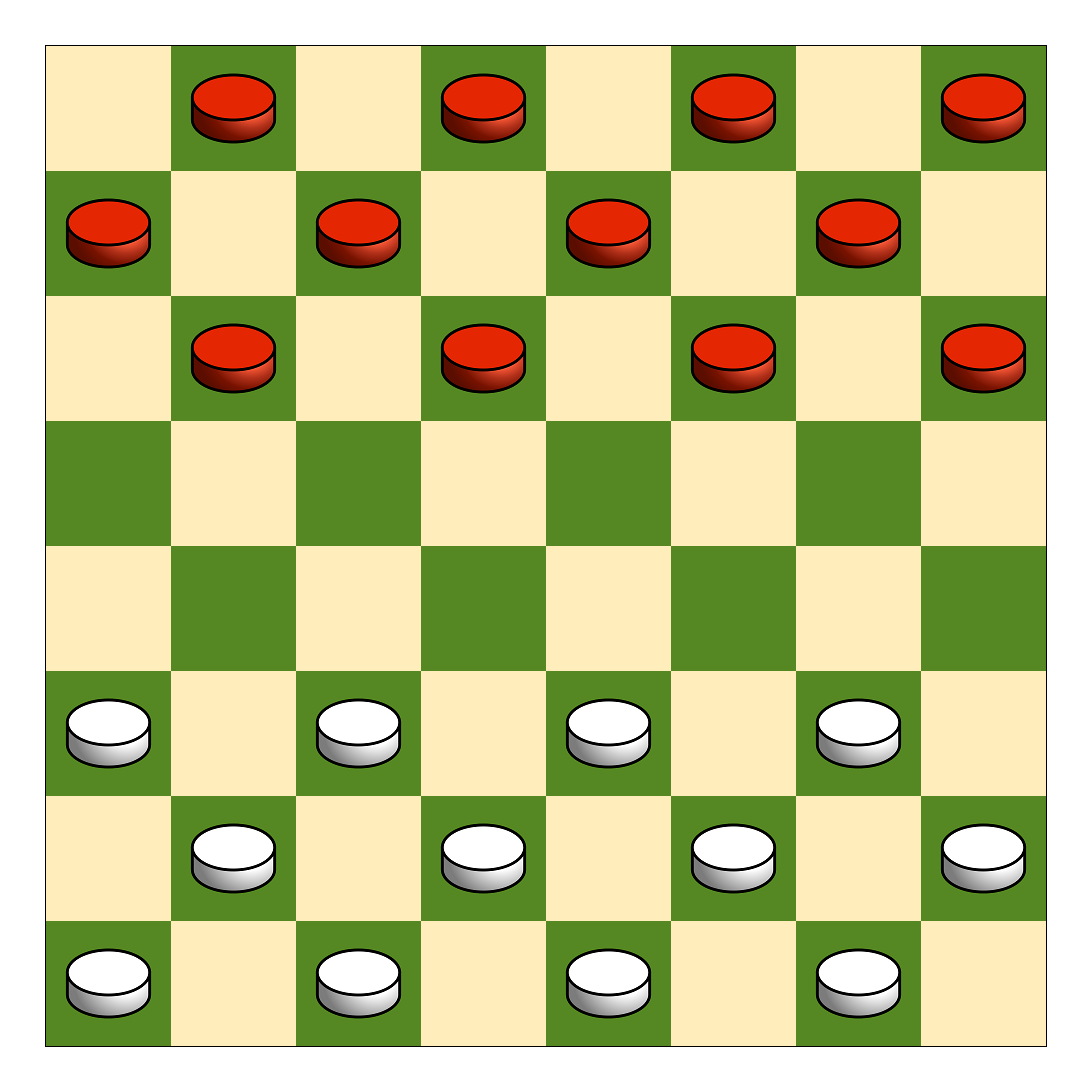 English (and several other 8x8) draughts starting position. Using the great checker icons of User:Stellmach (svg'd by User:Stannered). This .png file was created in MSPAINT.